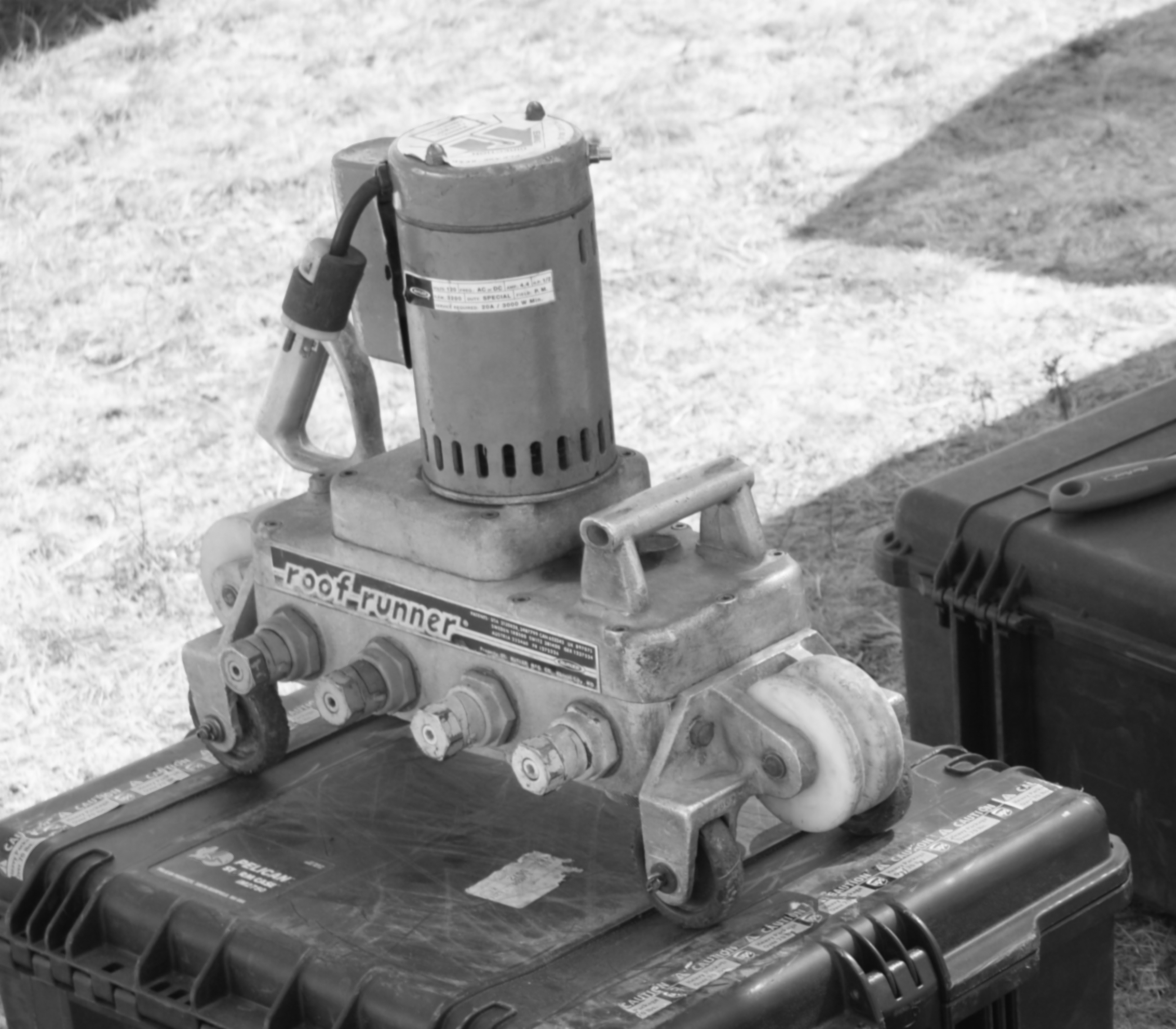 The Roof Runner® roof seaming machine by Butler Manufacturing.